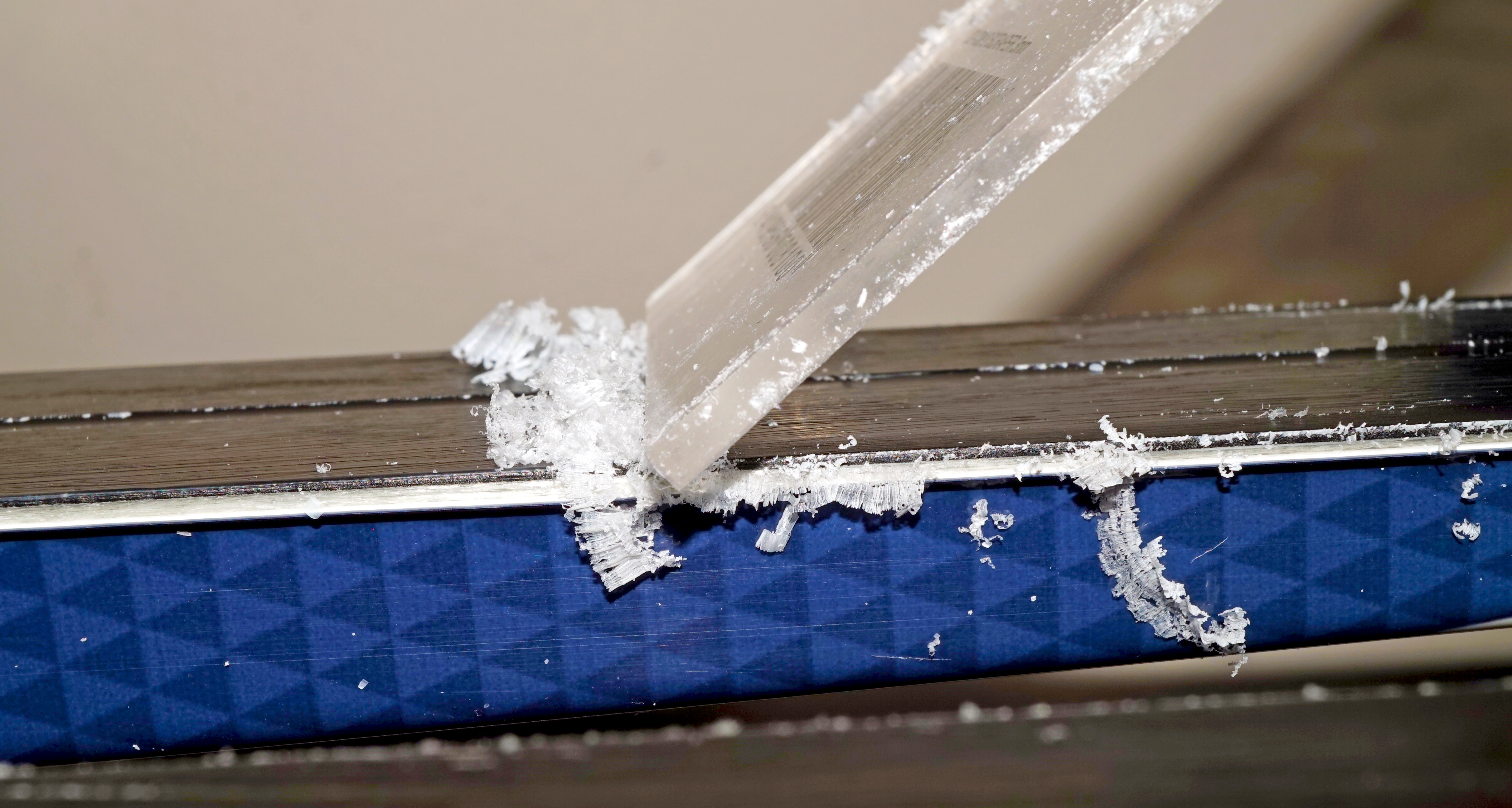 Skraping glide wax (low fluor) from Karhu Altus skating ski.